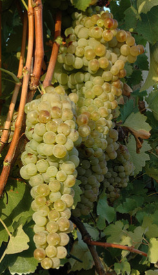 Cropping of Commons File:Albana grapes.jpg by Gianluca Giunchi posted to Flickr on 26 August 2007, 19:14:04 with a Creative Commons Attribution 2.0 Generic license.